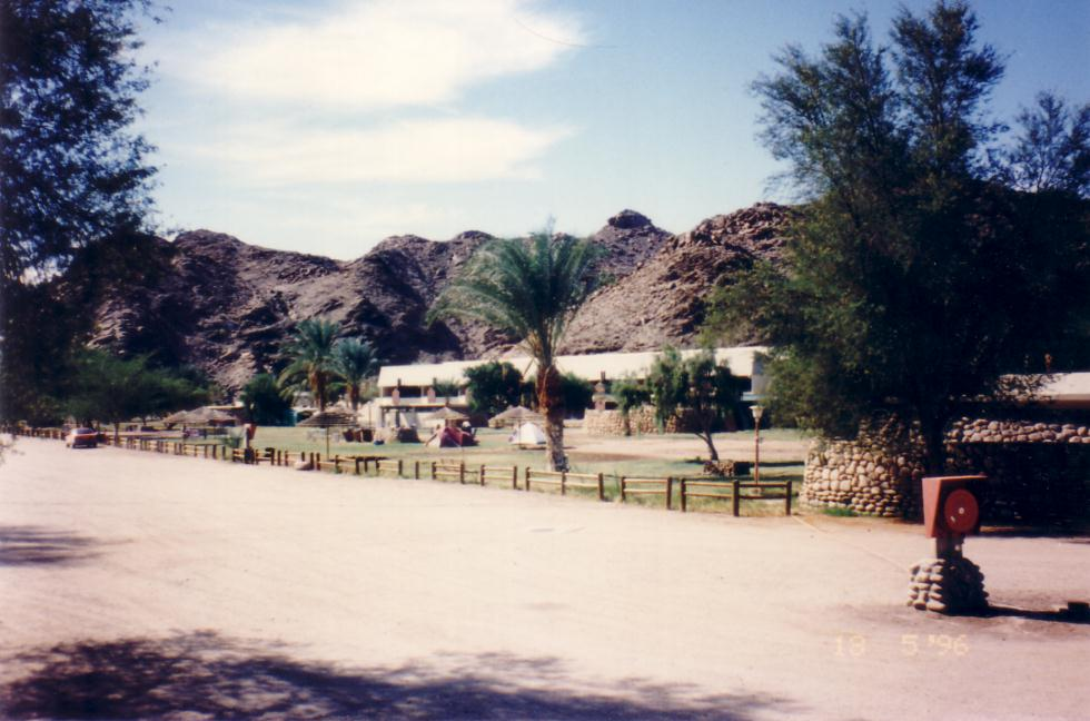 Colour photo of entrance to Ai-Ais Hot Springs, Namibia, taken by myself on 18 May 1996.